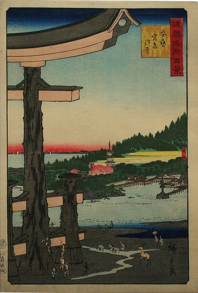 Aki Miyajima Shiohigari of 100 Views of the Provinces.